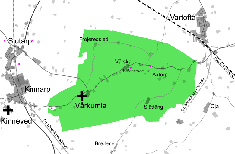 Map of Vårkumla parish in Frökind hundred, Falköping municipality, Västergötland, Sweden. Scale 1:40,000. The area of Vårkumla parish is marked green. The churches of Kinneved and Vårkumla are marked with black crosses. The Neolithic passage graves (and one dolmen) are marked magenta.